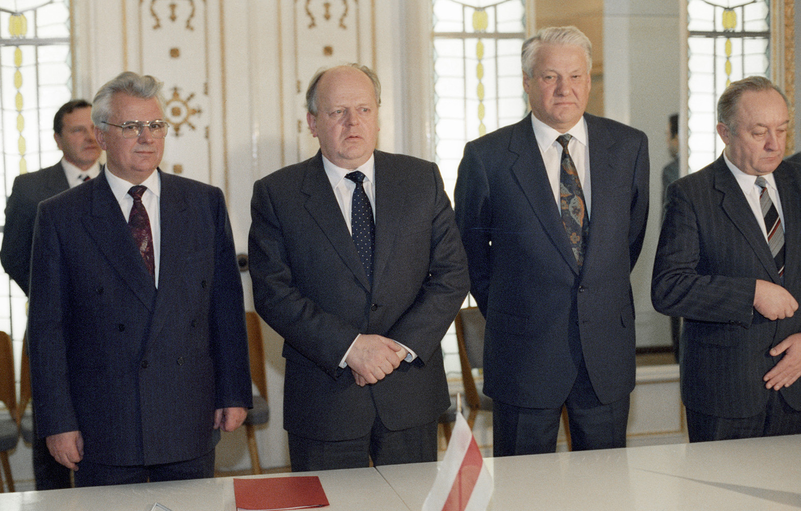 “Leonid Kravchuk, Stanislav Shushkevich and Boris Yeltsin”. Leonid Kravchuk, President of Ukraine, left; Stanislav Shushkevich, Belarus' Supreme Soviet Speaker, center; and Boris Yeltsin, President of Russia, 2nd right, in Belovezhskaya Pushcha after signing the Agreement on the Establishment of the Commonwealth of Independent States (CIS)